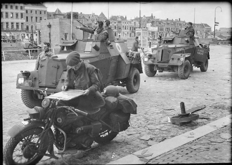 Royal Air Force- 2nd Tactical Air Force, 1943-1945. Humber light reconnaissance cars of No. 2777 Field Squadron, RAF Regiment at the 'ready position' outside the railway station in Middleburg, Holland, as Allied forces enter the town.